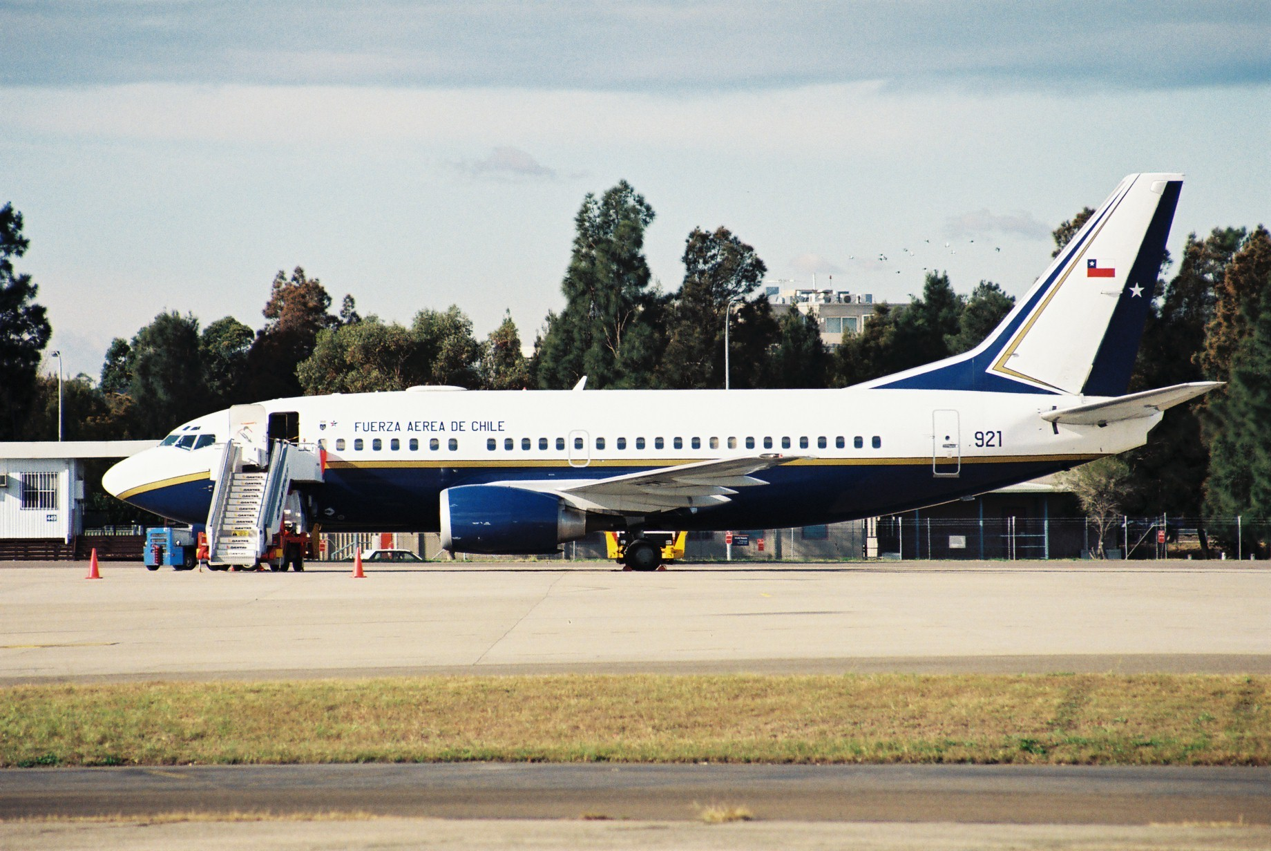 Boeing 737-500 (FACH 921) operated by the Air Force of Chile as a VIP transport. It is seen here at Sydney Airport, during an official visit to Australia by President of Chile Ricardo Lagos in 2005. Taken using a 35mm film SLR and converted to digital format at time of film processing.